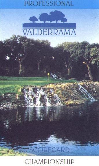 Old scorecard of Spanish golf club Valderrama, in Cádiz, 1993